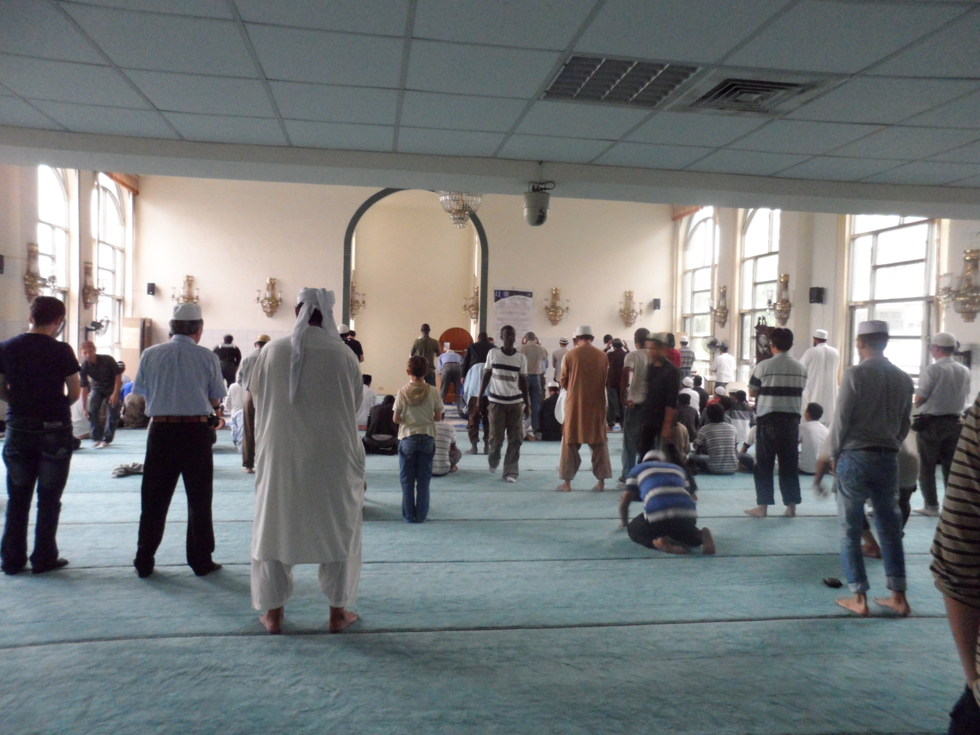 Kaohsiung Mosque Prayer Hall, Lingya District, Kaohsiung City, Taiwan